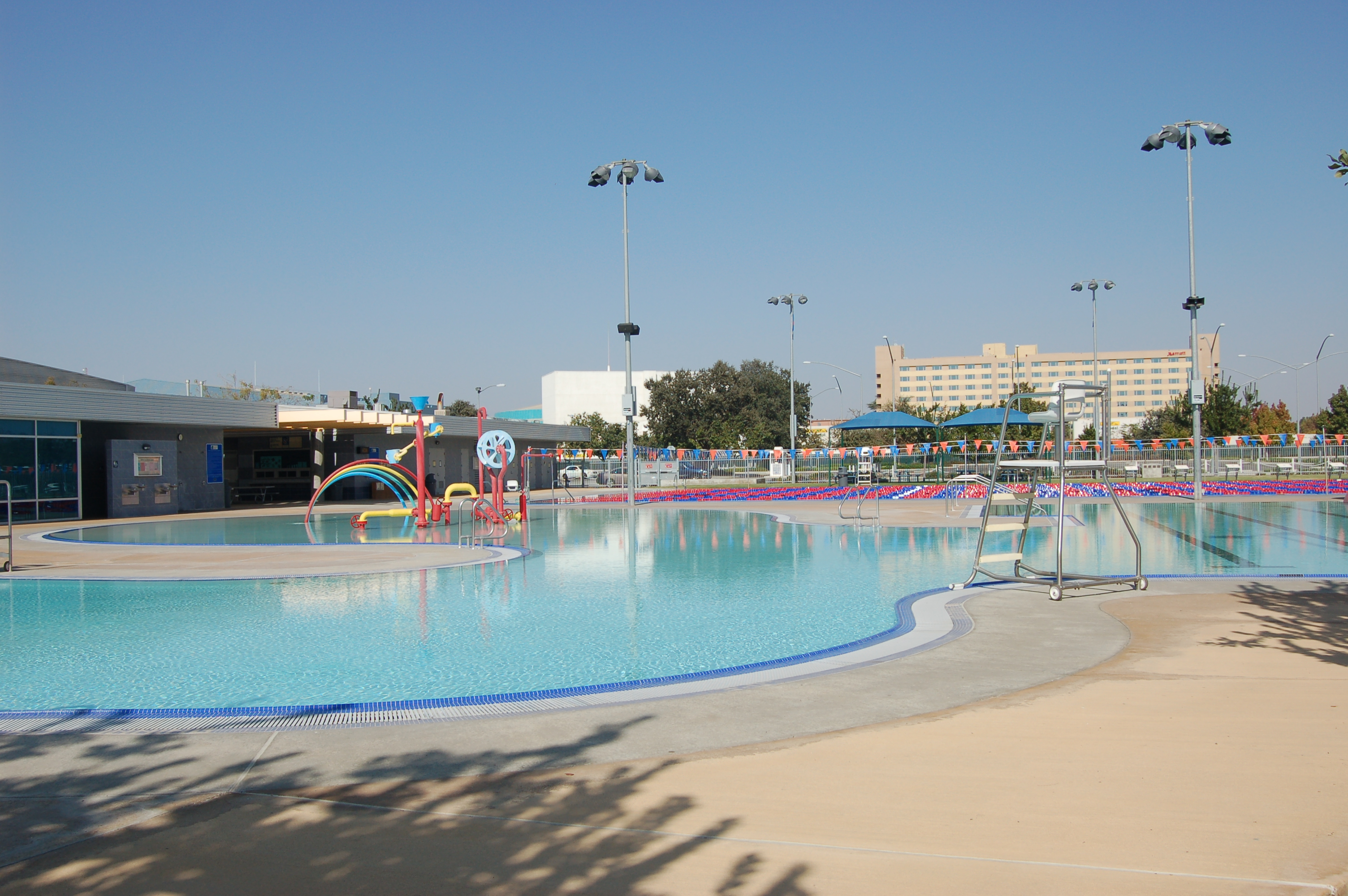 View of the Mc Murtrey Aquatics Center's Zero Depth Pool.